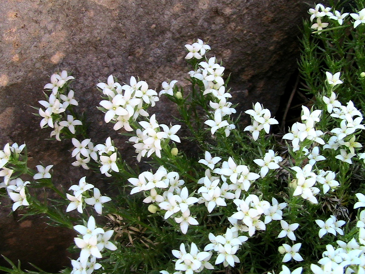 Galium pyrenaicum. In Puig Sobirà, Odèn (Solsonès - Catalunya). To 1.820 m. altitude